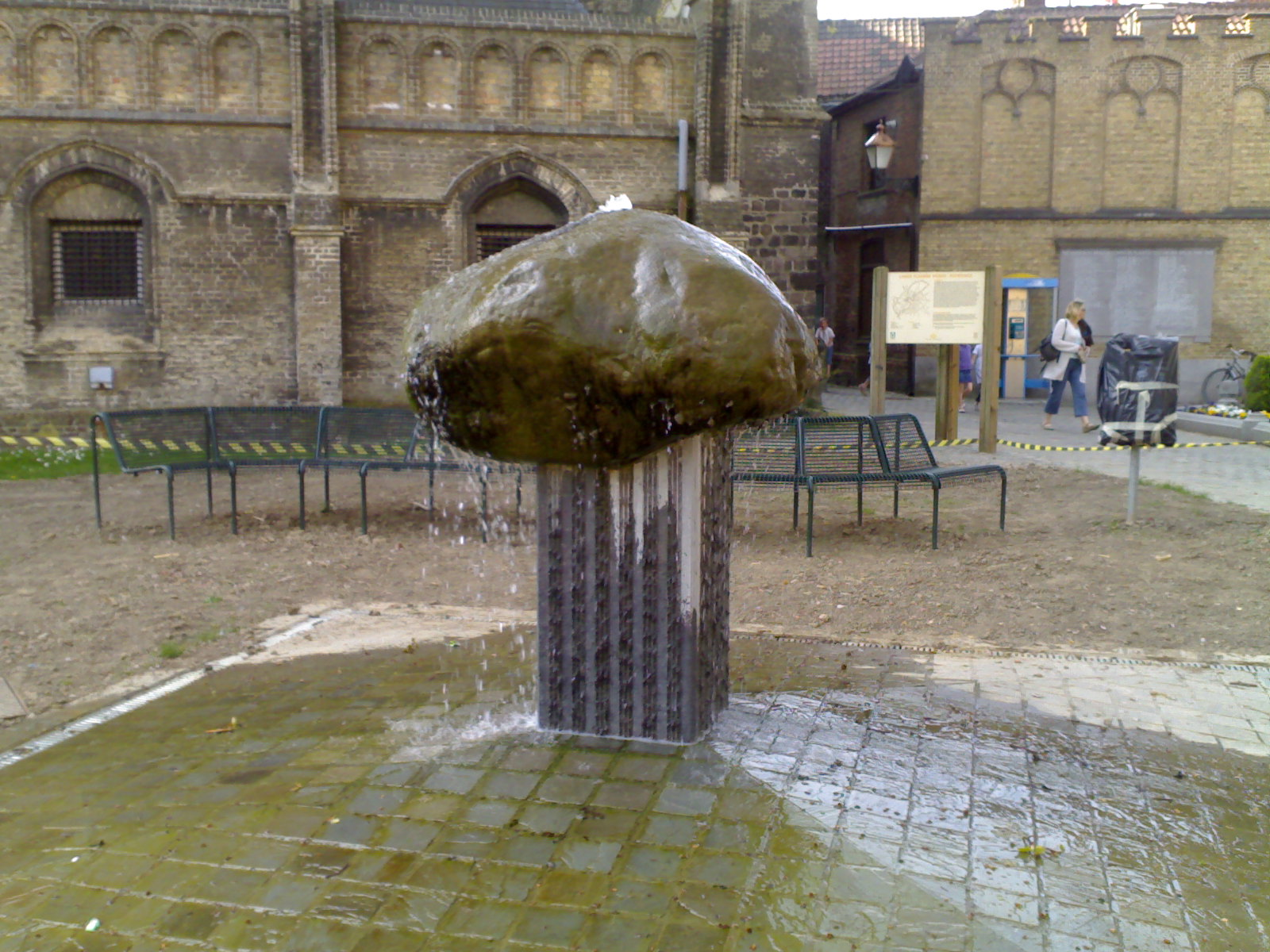 Royalty-free. Picture taken by VLS-contributor:Astro on April, 2007. Picture depicts monument in Poperinge, Belgium.